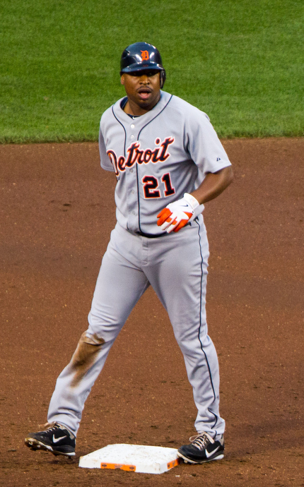 Delmon Young